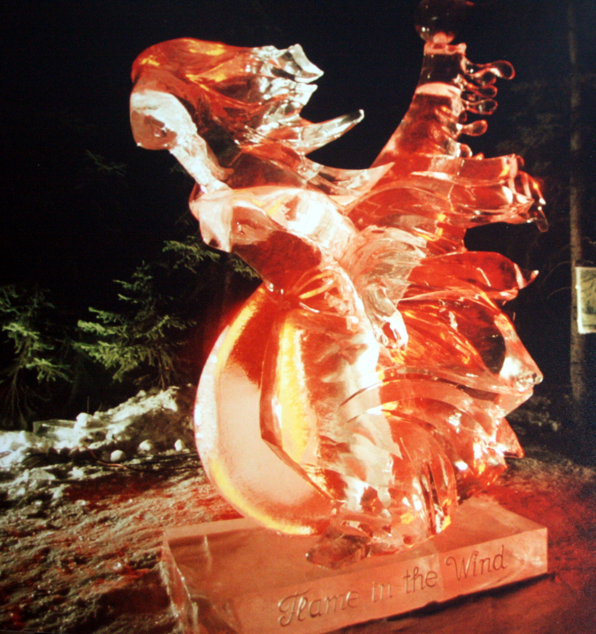 Ice sculpture "Flame in the Wind" in Fairbanks Photograped by Brocken Inaglory